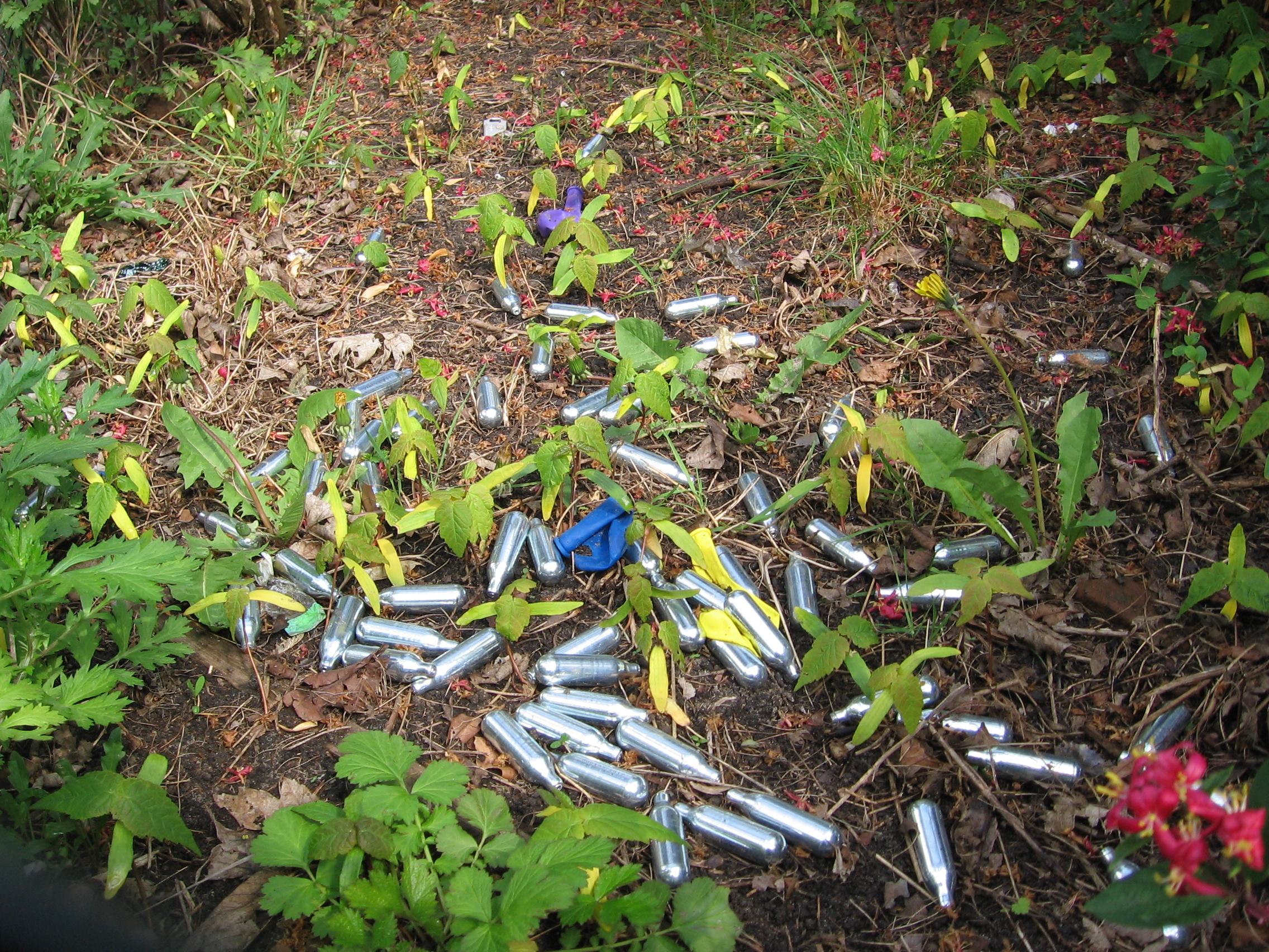 Used nitrous oxide whippits (N2O) near a secondary school in Utrecht-West, The Netherlands. Drug use by youngsters.